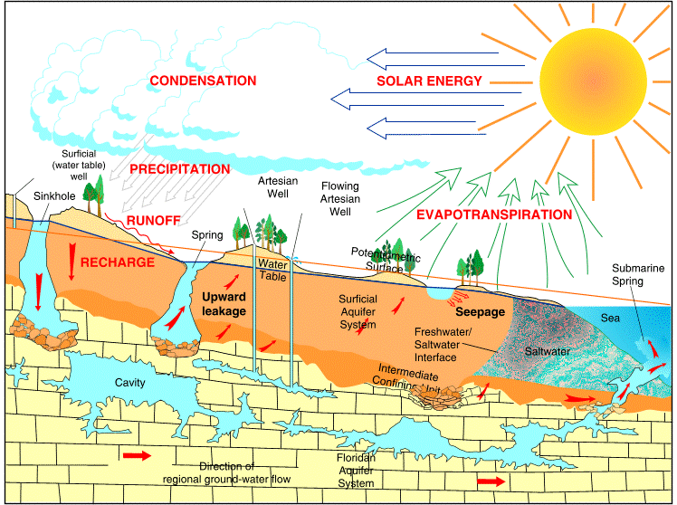 Hydrologic cycle of water from atmosphere to ground in Florida, including the formation of sinkholes, artesian wells, springs, and confluence of salt water from the ocean